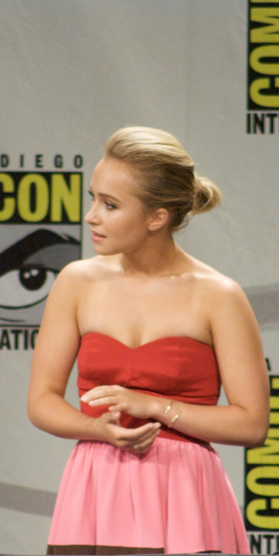 Hayden Panettiere at the Comic-Con 2008 Heroes panel.